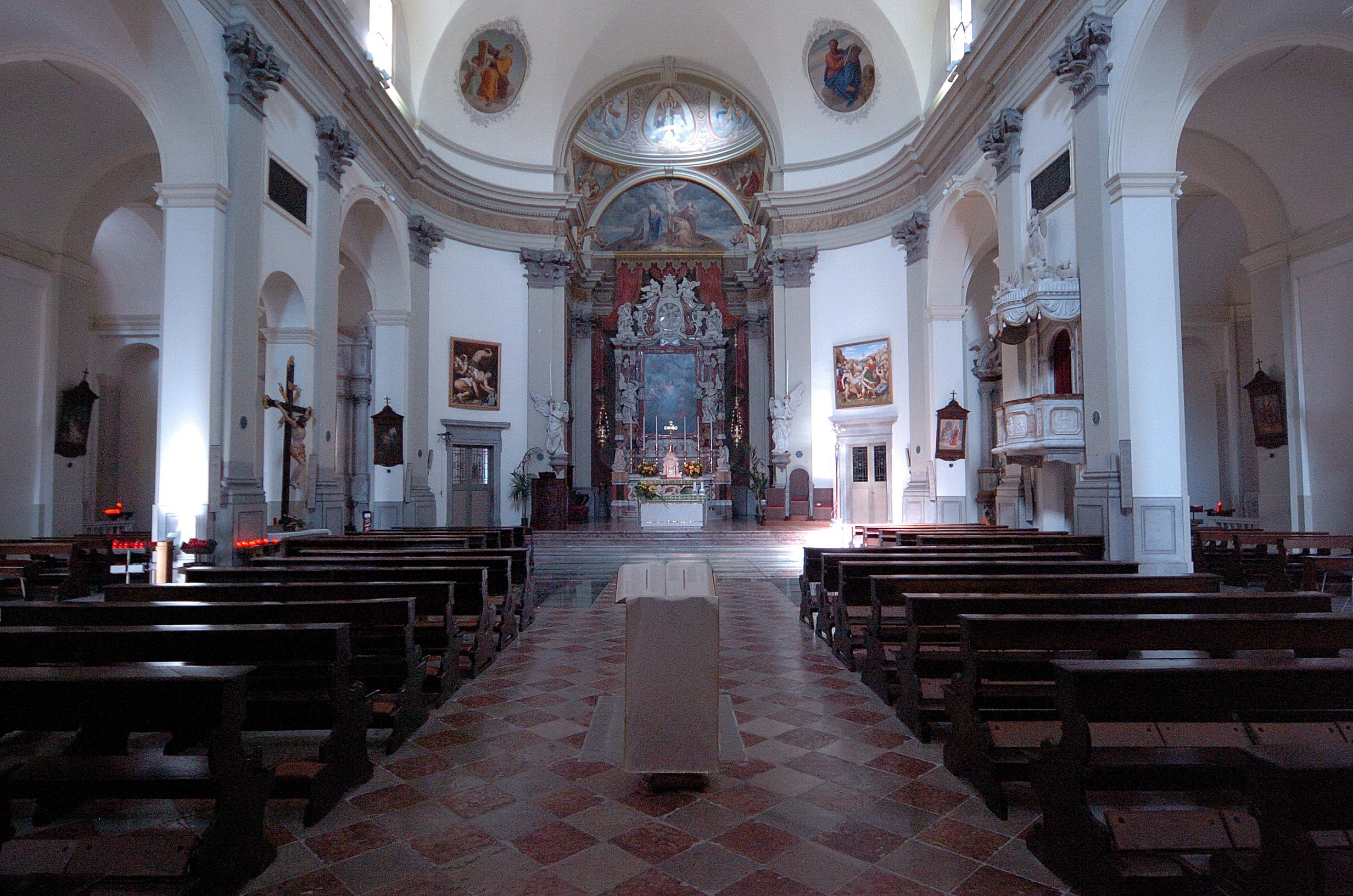 Nave of the parish church San Pietro in Tarcento, province of Udine, region Friuli-Venezia Giulia, Italy